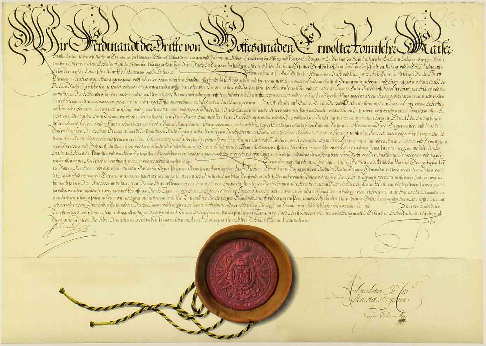 The Linzer Diplom in which emperor Ferdinand III confirmed in the year 1646 the imperial immediacy of city of Bremen, Germany.